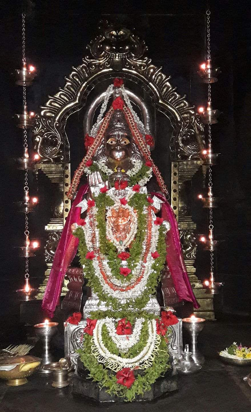 ಆರಾಧ್ಯ ದೇವರು